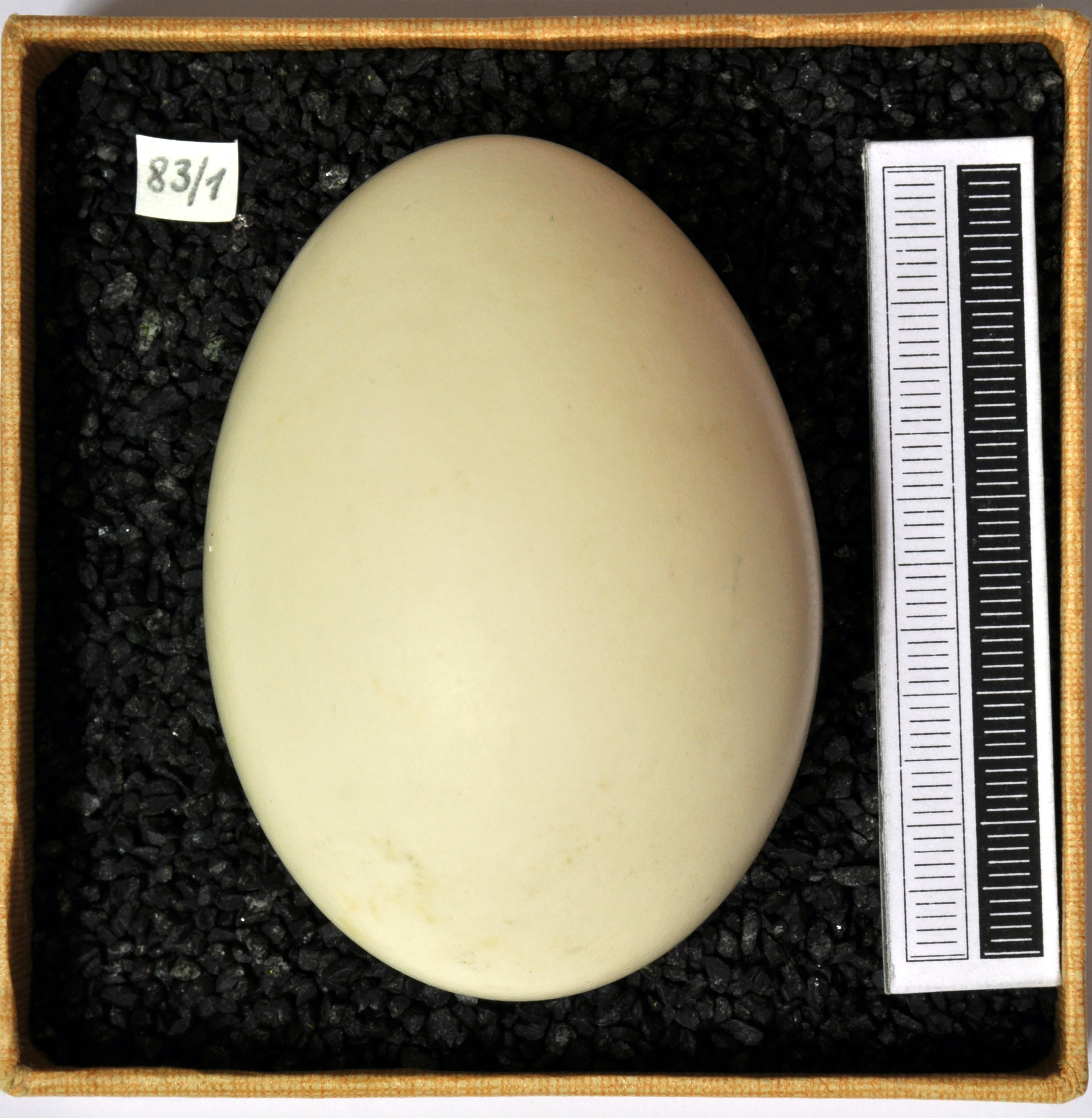 Goosander Mergus merganser, egg, Coll. Museum Wiesbaden, Origin: Värmlands Län, Sweden, 06.06.1963, leg. W. Abelmann